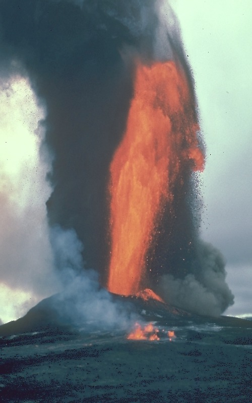 Lava fountain explodes from the Pu`u `O`o spatter and cinder cone on Kilauea Volcano. Dark, cooling lava fragments (tephra) fall to the ground on the cone and downwind. Below the cone, small lava fountains and flows erupt from a small fissure.